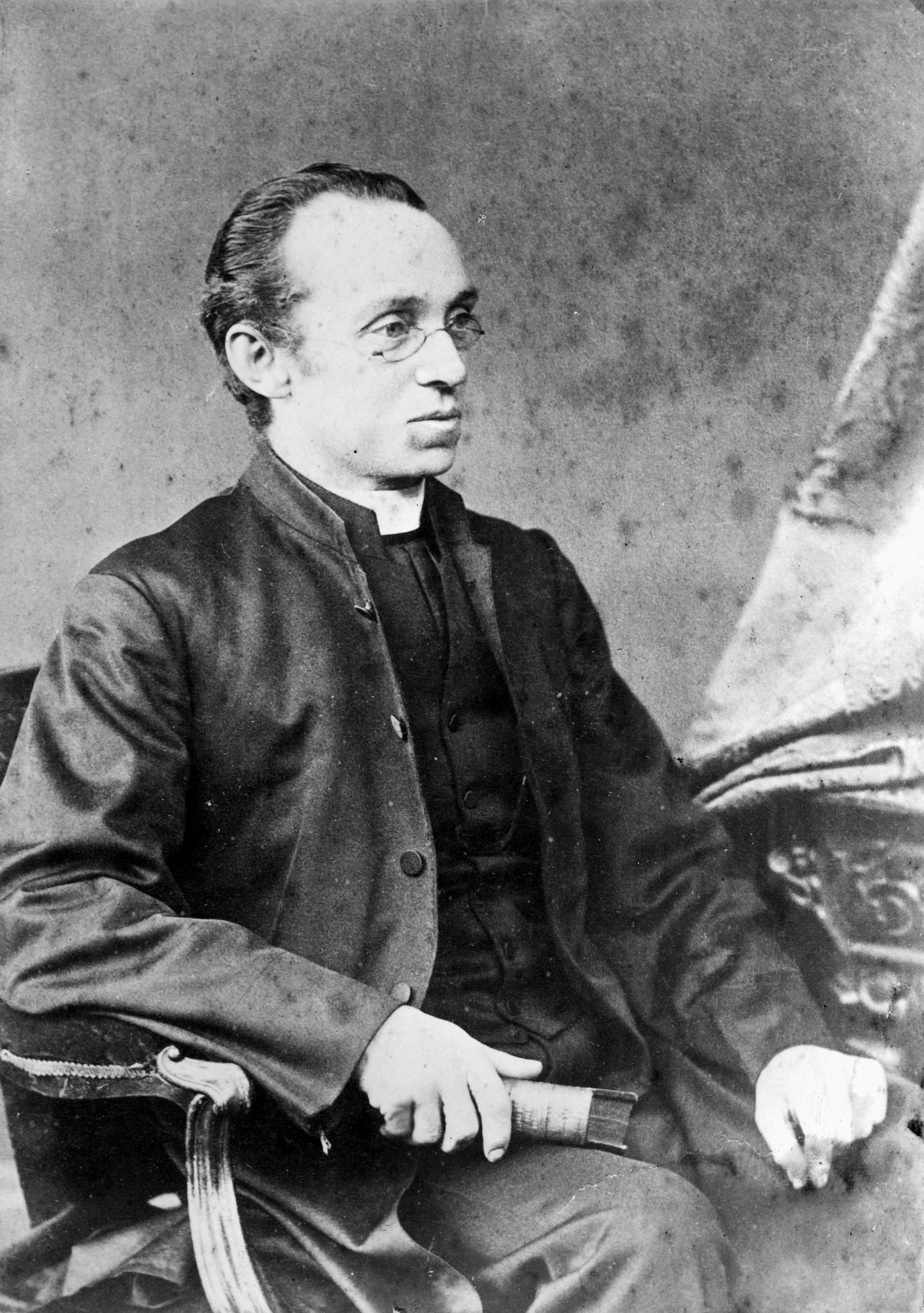 A portrait of Bishop John Grimes of Christchurch.